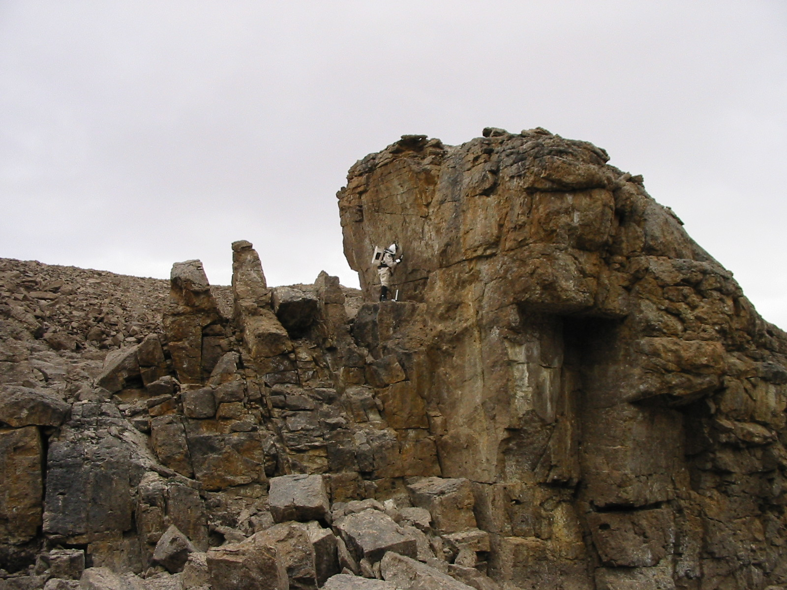 Markus Landgraf of Crew 7 uses a geologist hammer to obtain rock samples during EVA on Devon Island.